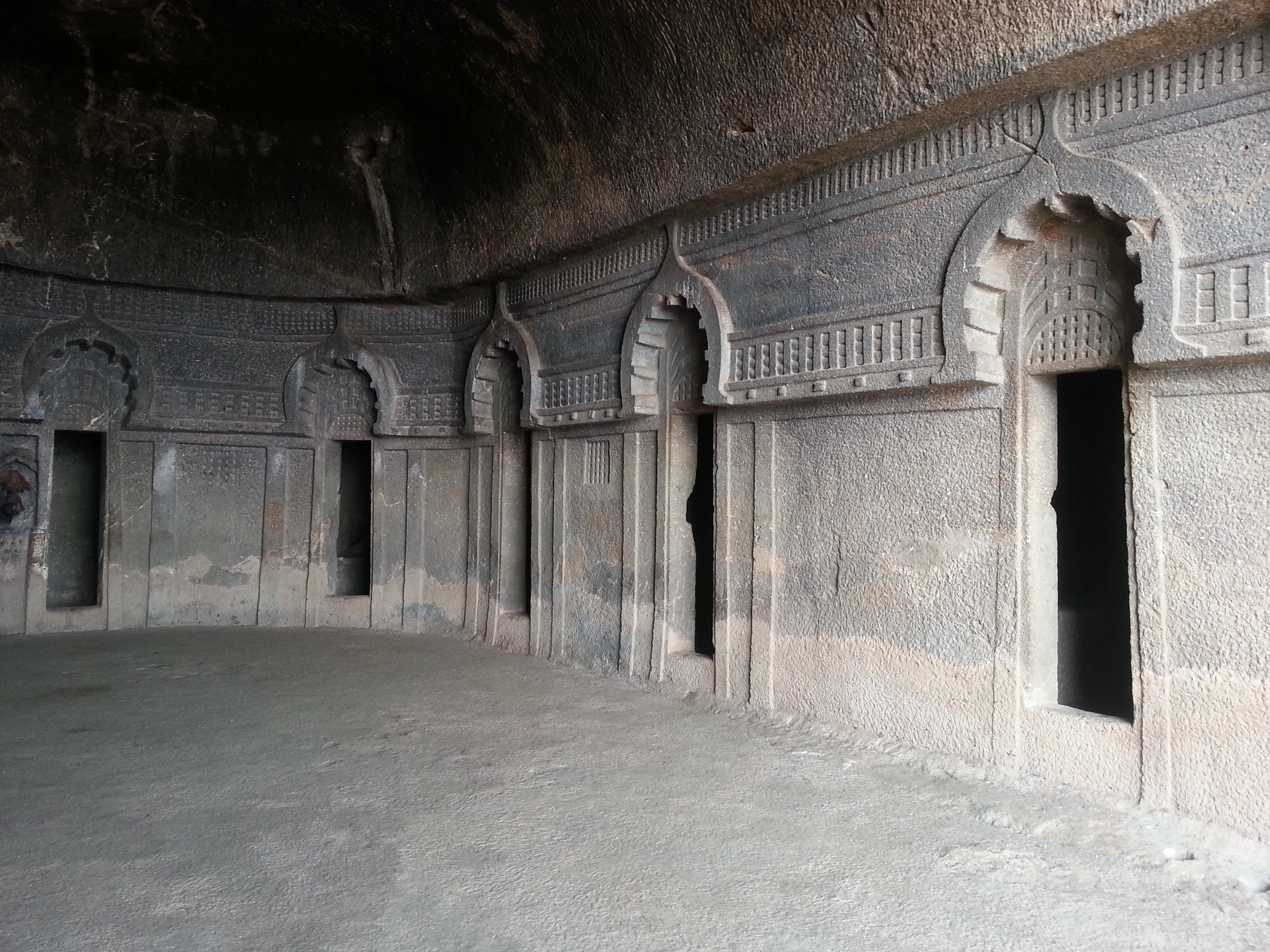 The picture shows carved viharas, at the Bedse caves near Pune